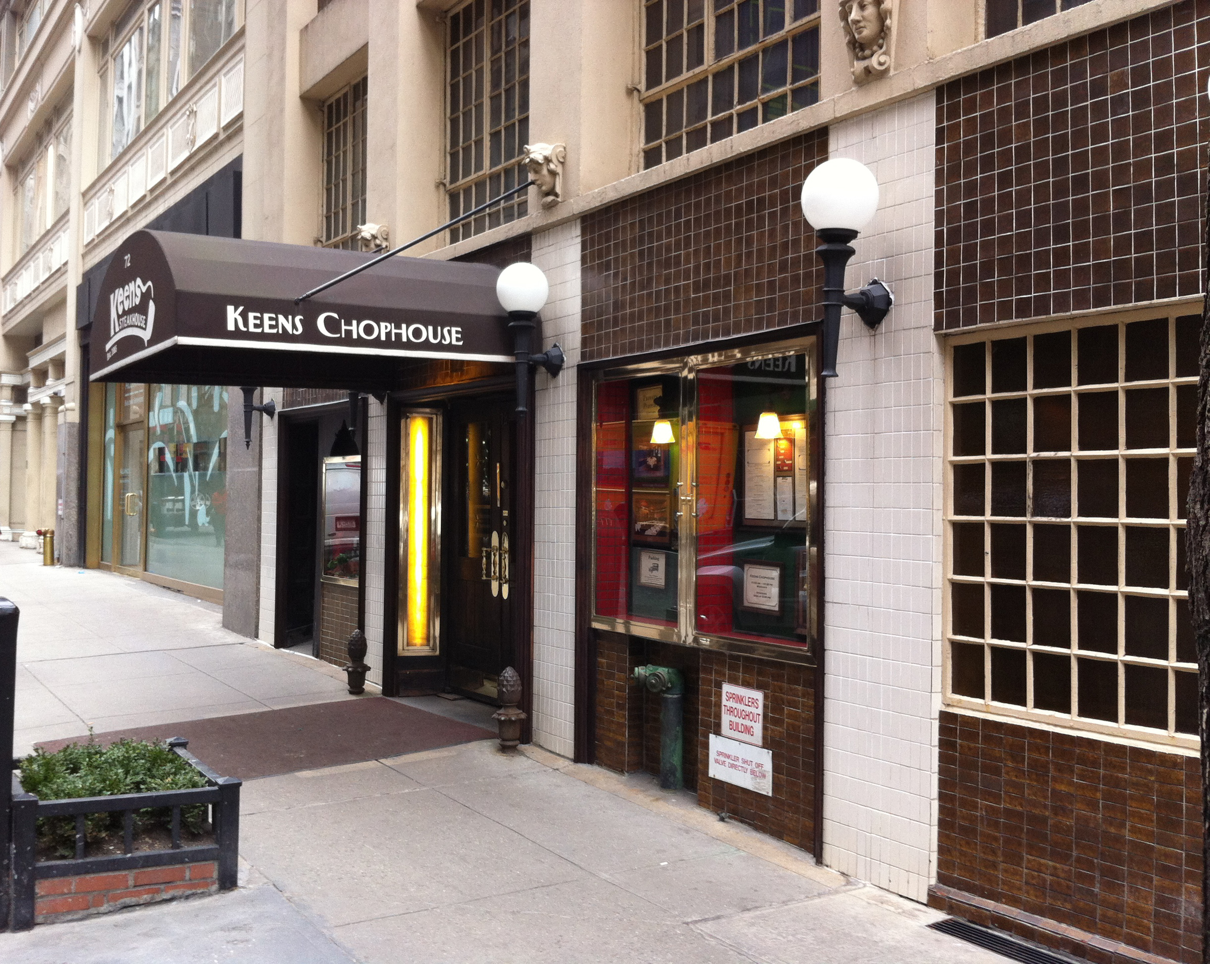 Keens Steakhouse, 72 East 36th Street, Manhattan, New York.